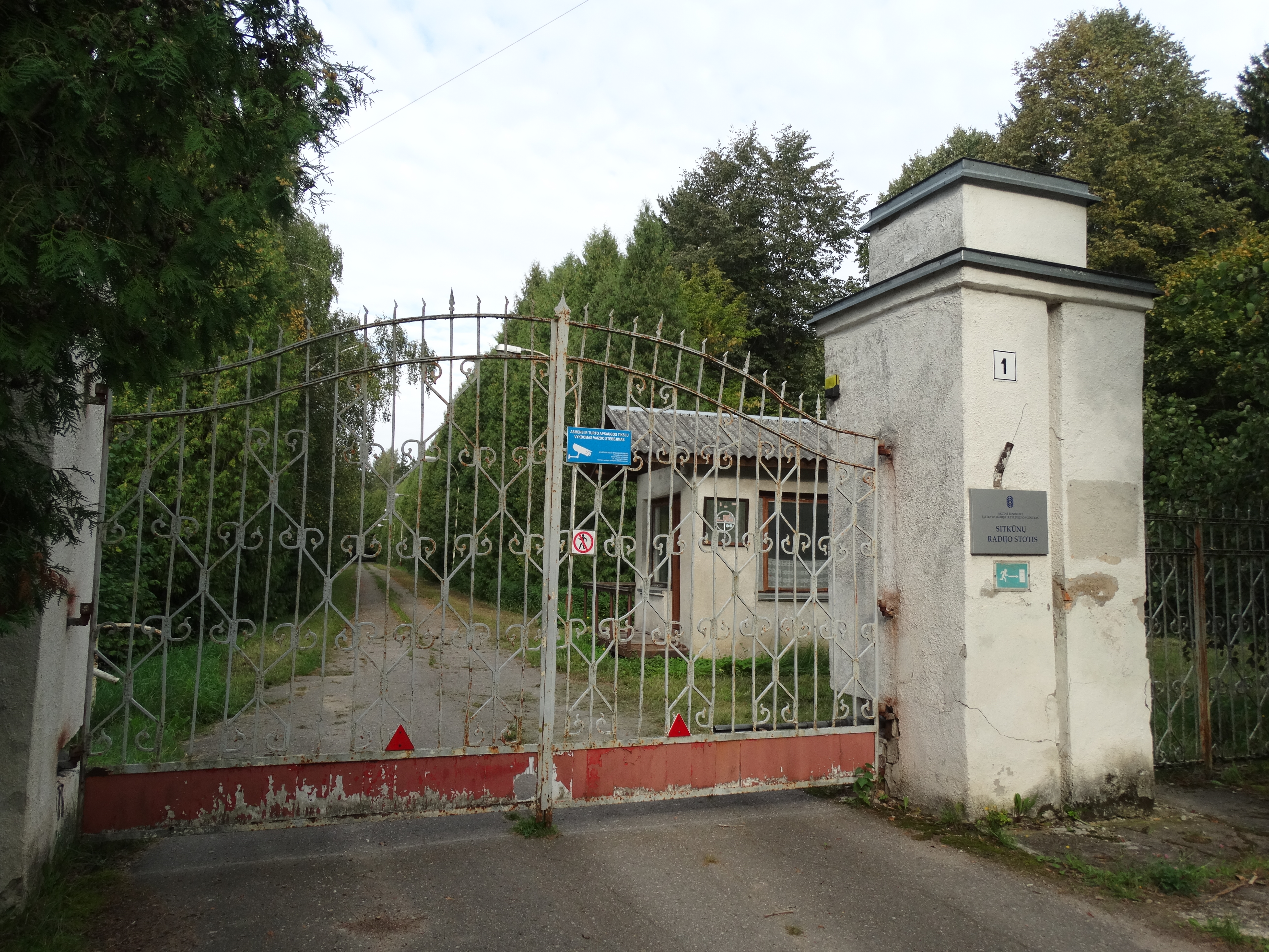 Sitkūnai, radio station, Kaunas district. Lithuania